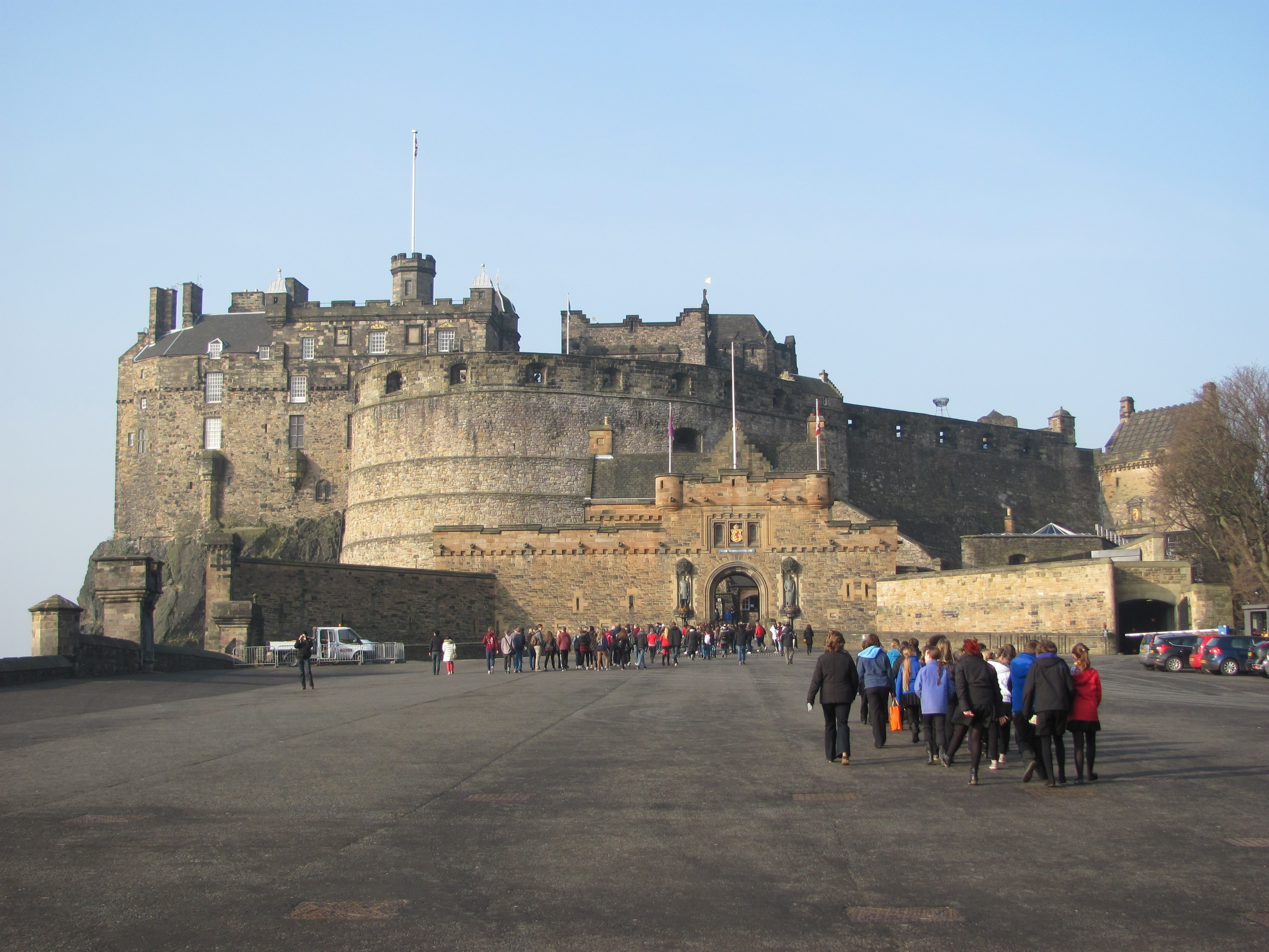 Gate of Edinburgh Castle